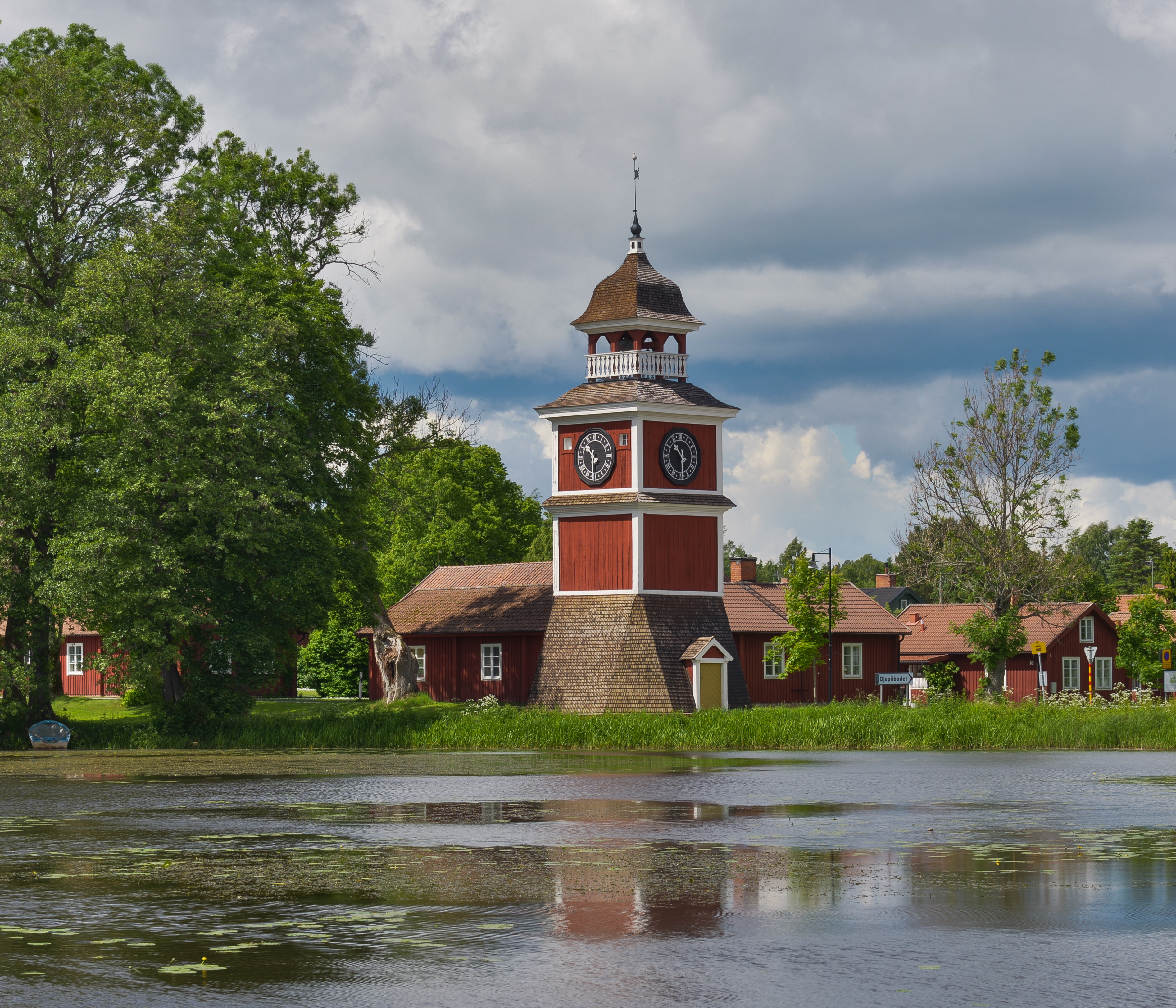 Karlholmsbruk, Tierp Municipality